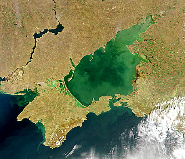 Satellite view of Azov Sea area and Black Sea